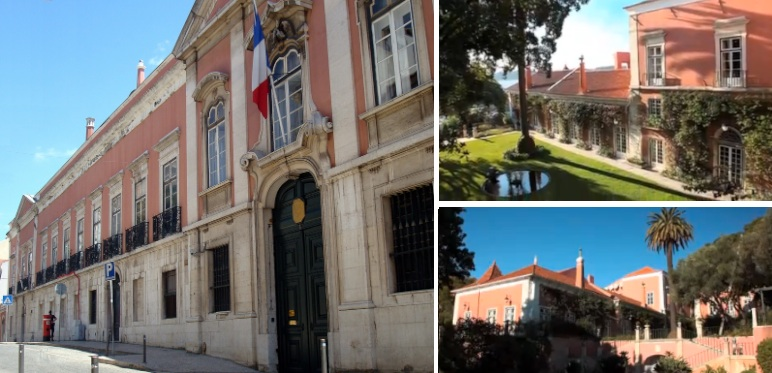 The All Saints Monastery of the Military Order of Santiago, where Columbus's wife, Filipa Moniz lived, is today the French Embassy, in Lisbon.